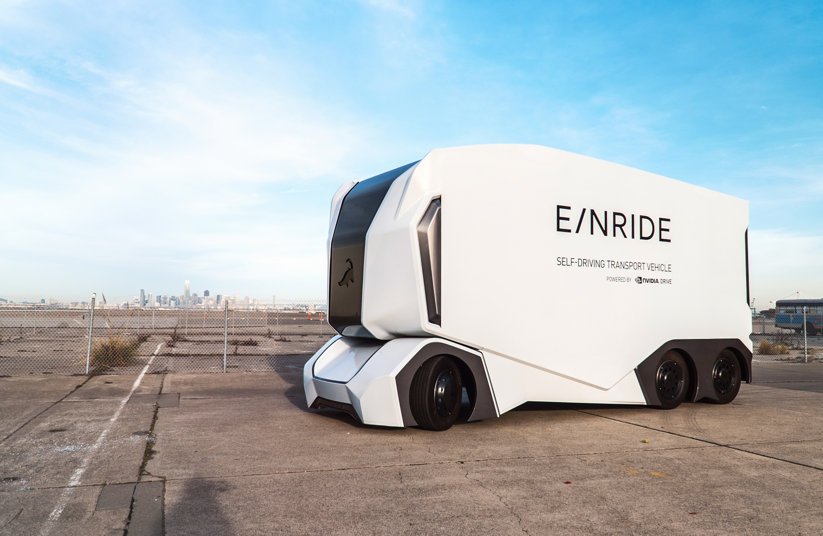 The T-pod in front of San Fransisco, March 2018